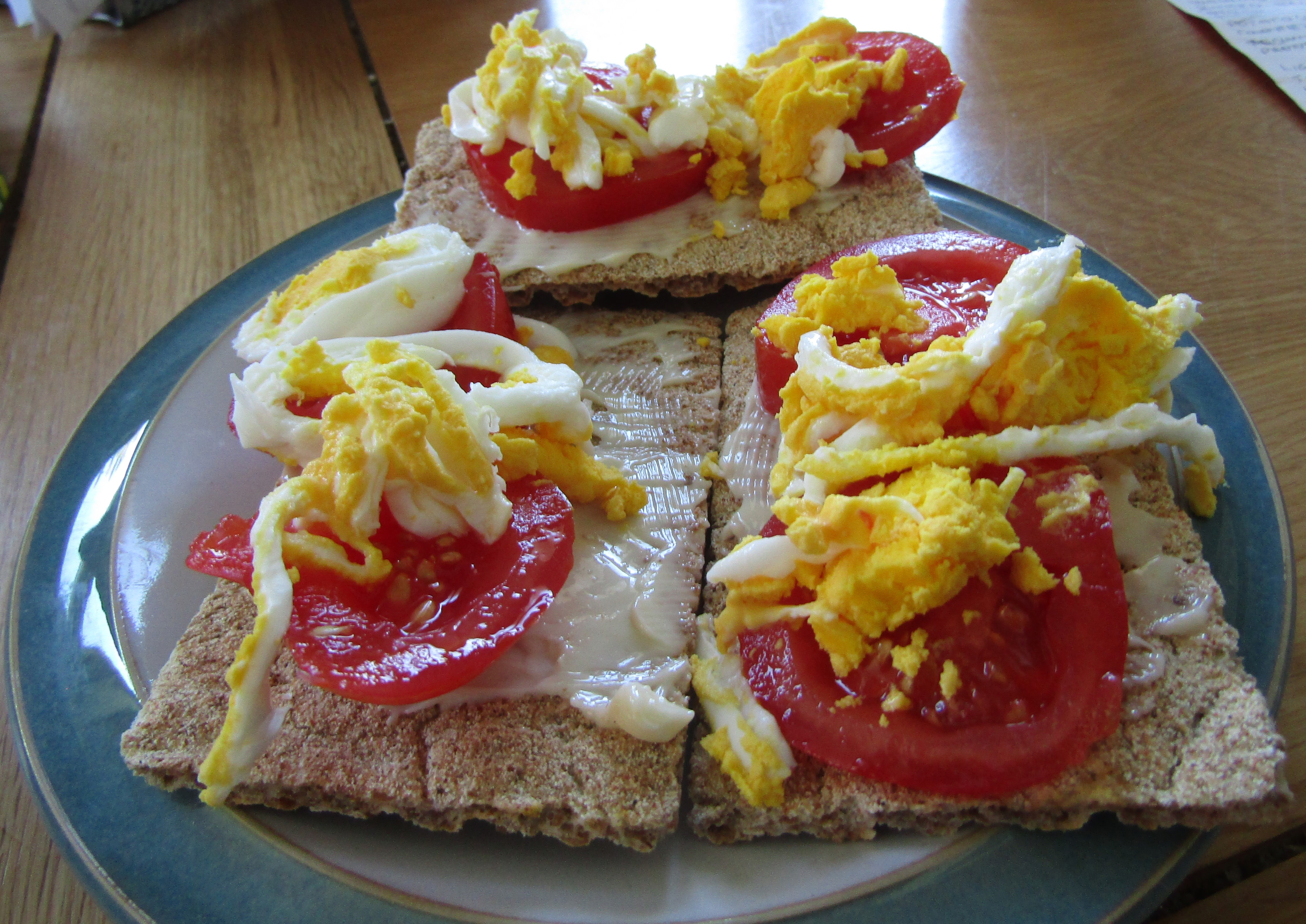 Egg, tomatos and cream cheese on rye crispbread in the town of Cromer, Norfolk, England.